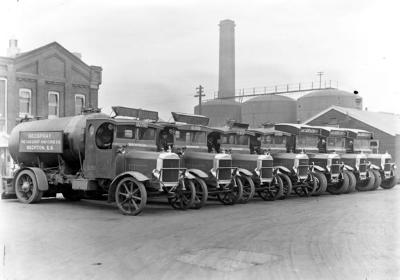 Lorries of the Gas Light and Coke Company at Becton. This image is from the collection of the National Maritime Museum and is out of copyright, having been taken not later than the 1930s.